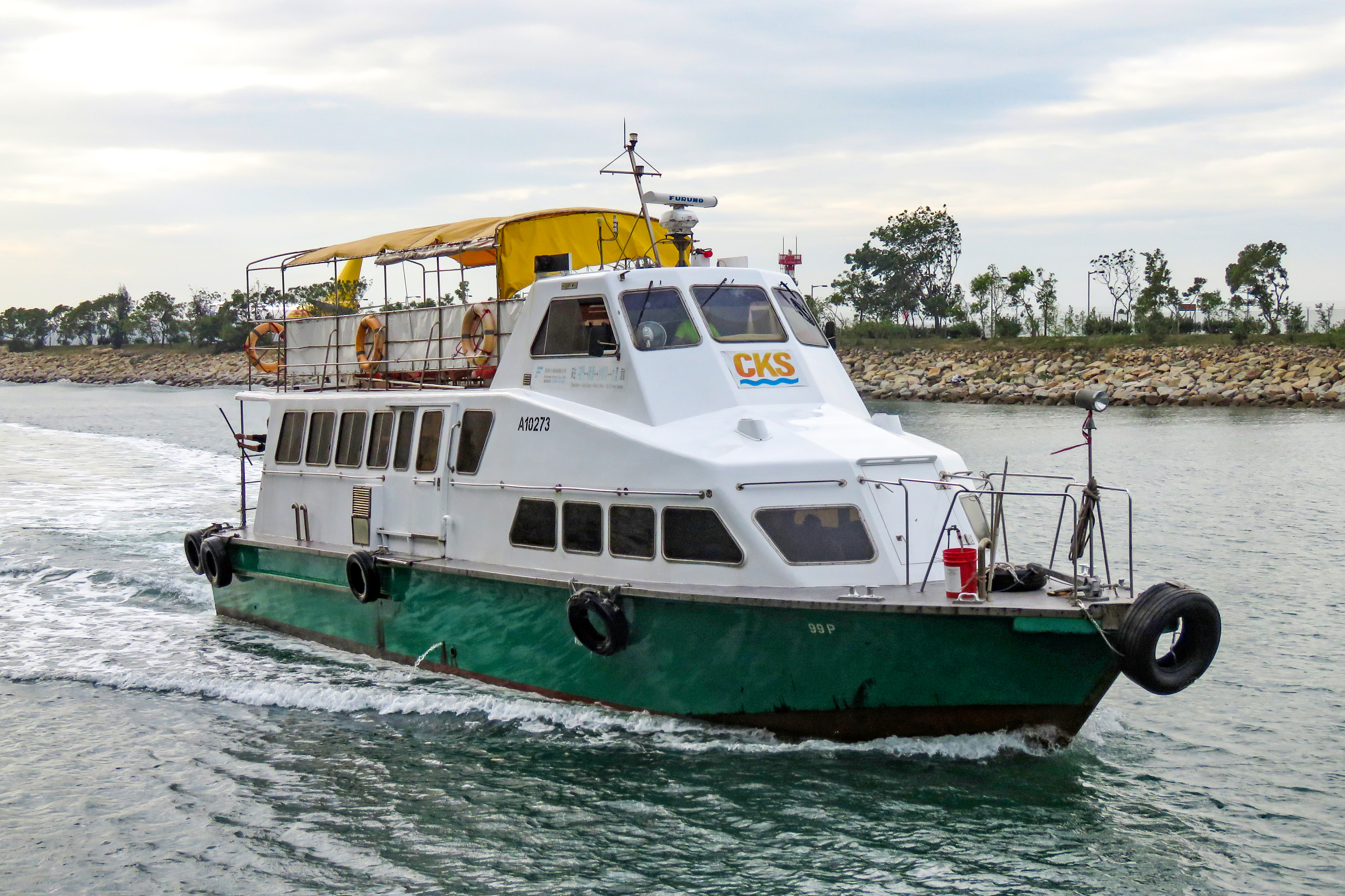 The 16:22 Fortune Ferry is perfect after finishing a spotting.